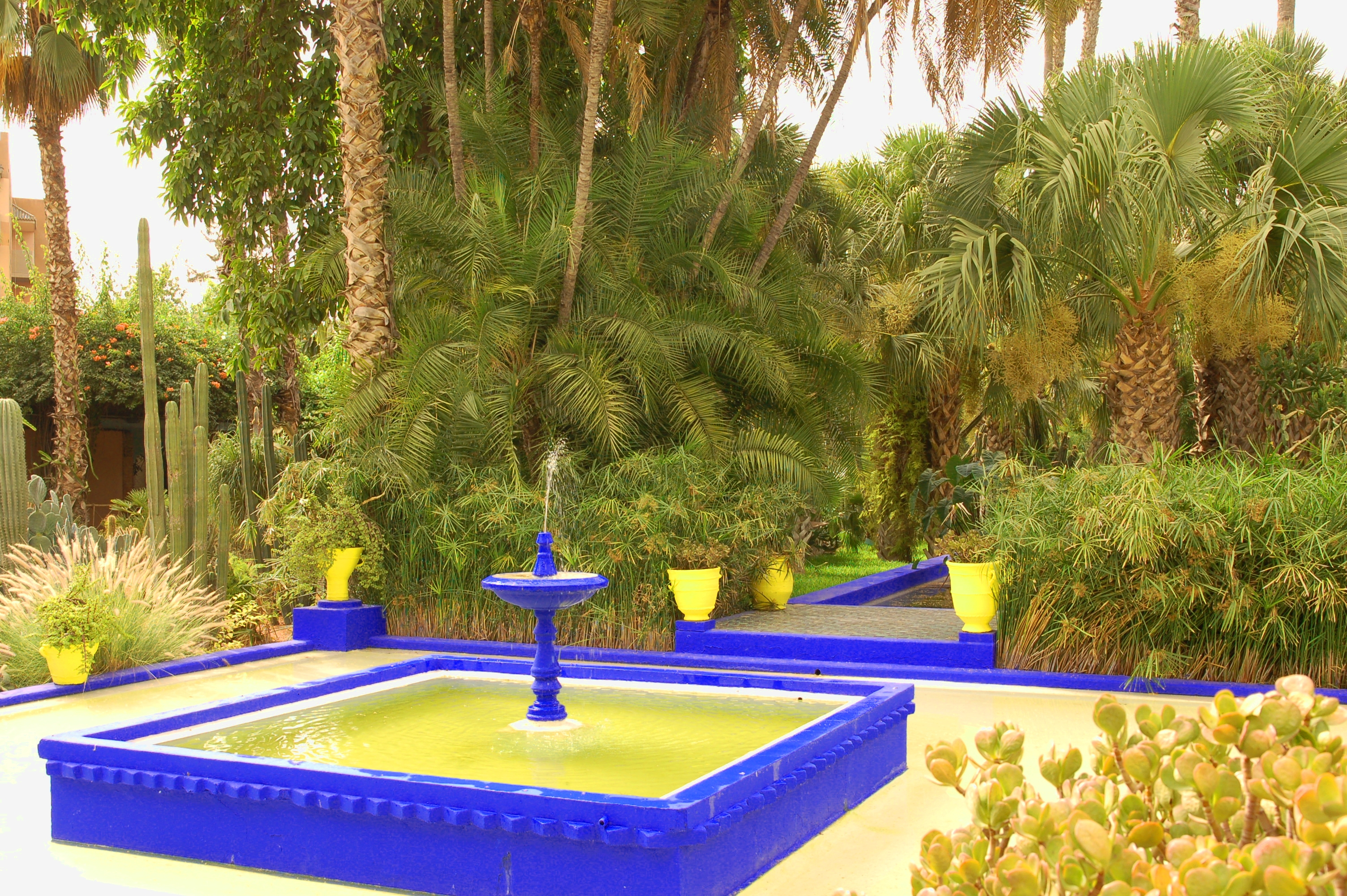 Maroc Marrakech city Majorelle garden